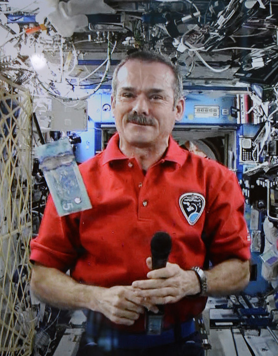 Chris Hadfield on the International Space Station during Expedition 35, unveiling the $5 Canadian banknote of the Frontier Series.